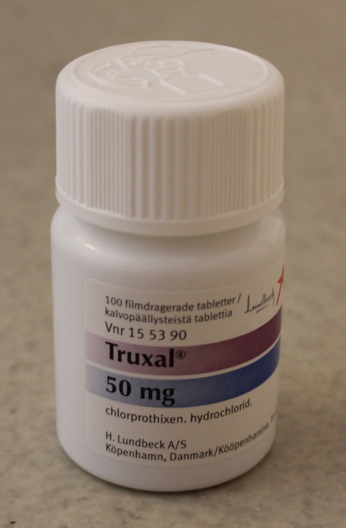 Truxal (Chlorprothixene)